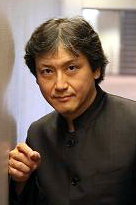 Kazushi Ōno, Principal Conductor of the Opéra National de Lyon, received the Person of Cultural Merit on November, 2010.